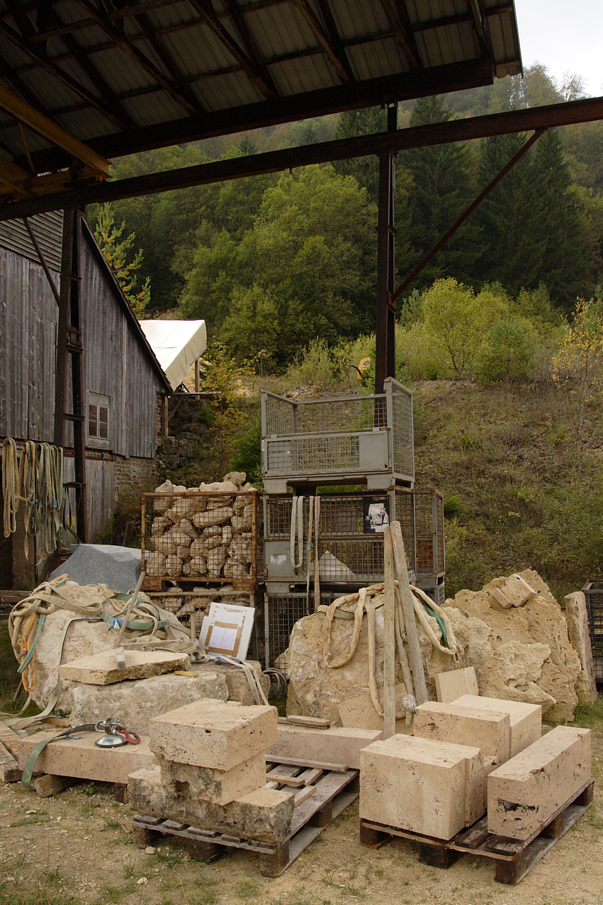 Old Travertine-Quarry in one-man-operation, municipality of Bärenthal in the valley of river Bära, West Swabian Alb. This porous sediment, when cropped still humid and easy to saw, runs dry and solidifies to become a fairly tough rock. Here the material developed in interglacial times of the interim of Pliocene/Holocene (12000-6000). Travertine stones were well estimated building stones. The porous stones are of light weight, well isolating and withstanding physical or chemical weathering (except by carbon dioxide water). In modern construction architecture estimates the creativeness for facades.